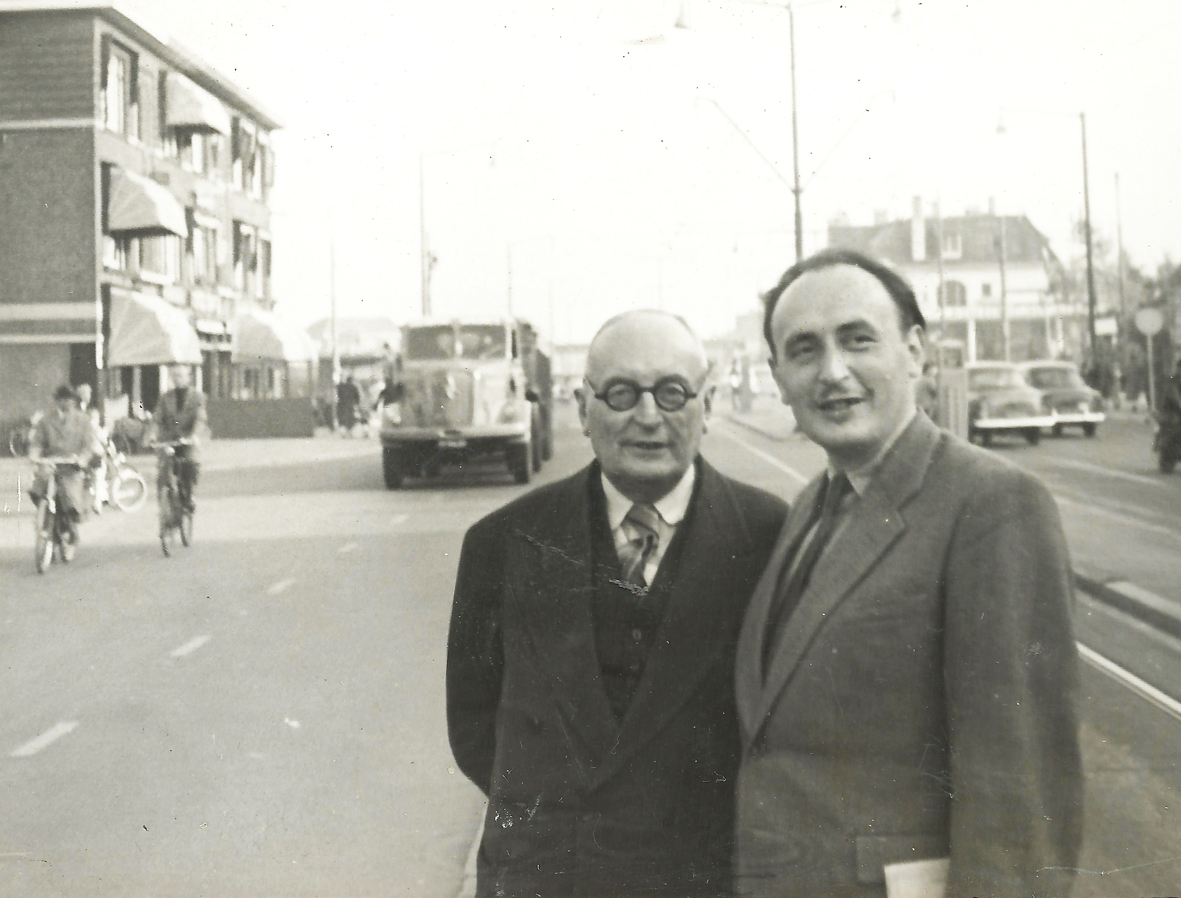 Bohdan Podoski and his son Kazimierz Podoski in 1957 during the meeting in Hague. Bohdan Podoski (born 1894 in the property of Losice, Poland, died 1986 in London- Polish lawyer, politician, deputy for the Sejm II, III and IV terms, the Deputy Speaker of the Polish Sejm, state activist of the Second Polish Republic (1918-45), after the Second World War on emigration in Great UK. In the years 1951-1953 a member of the National Council in London. From 1966 he was the chairman of the League of Polish Independence. Kazimierz Podoski-Born 1923 in Warsaw- dead 1993 - polish economist, professor at the Faculty of Social Sciences of the University of Gdańsk, founder of Gdańsk political science, long-time director of the Institute of Political Sciences and the Chair of Political Science.